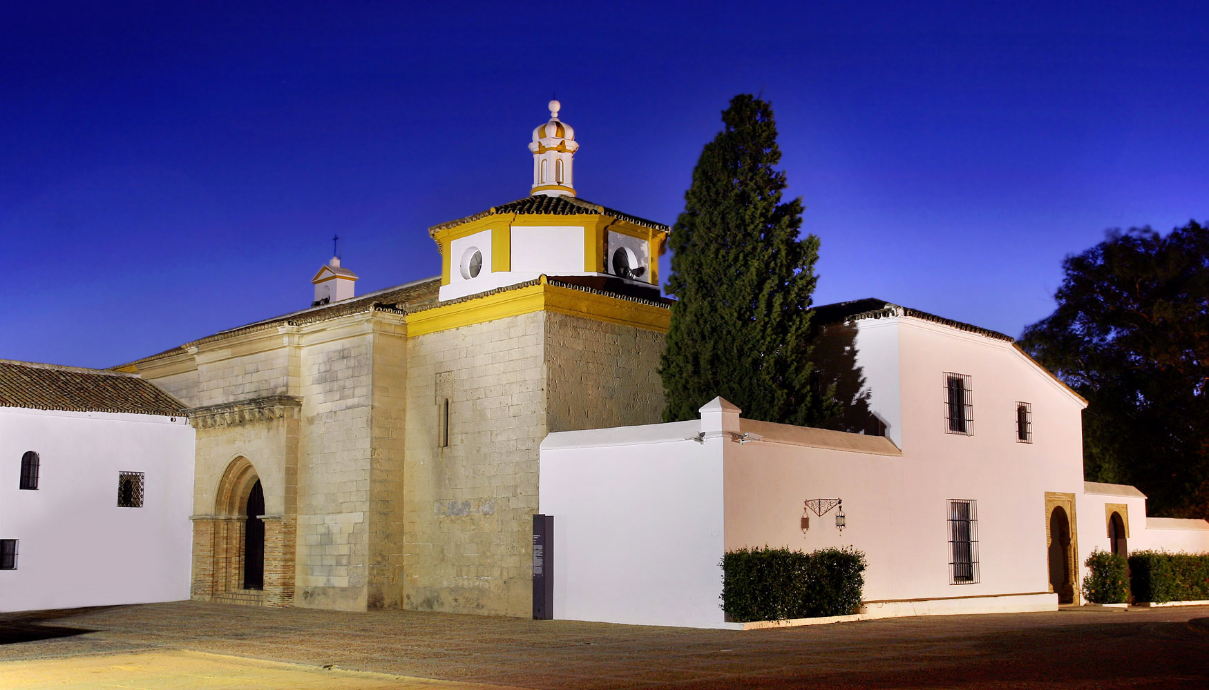 La Rabida Monastery in Palos de la Frontera (Huelva).